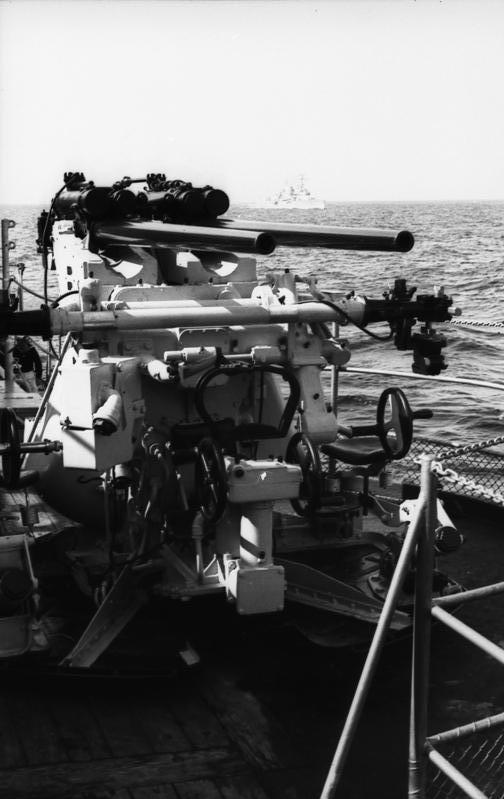 3.7cm SK C/30 semi-automatic gun upon LC/30 mount